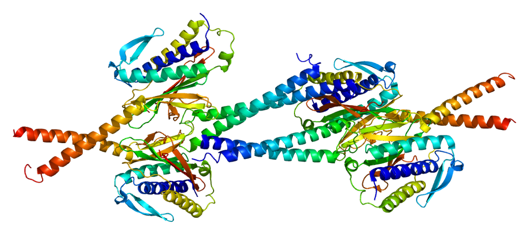 Structure of the MAD1L1 protein. Based on PyMOL rendering of PDB 1go4.